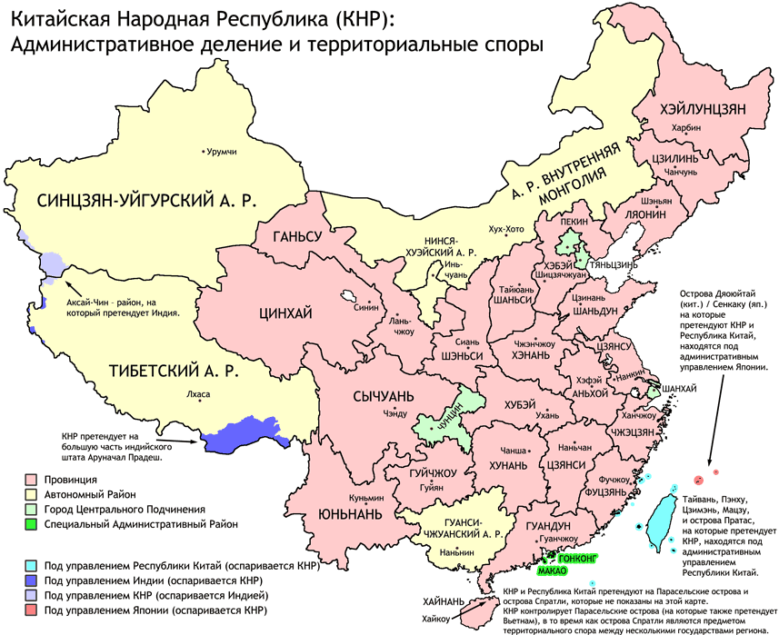 Administrative divisions of the People's Republic of China.